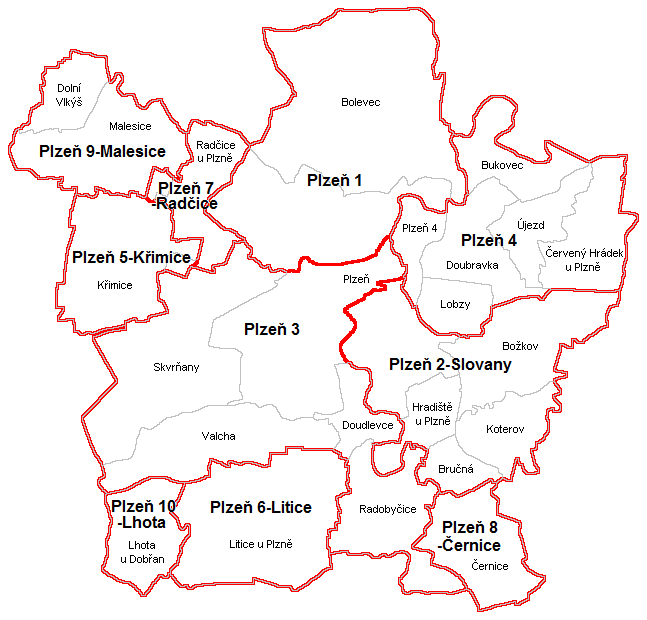 Map of municipal districts and cadastral areas of Plzeň